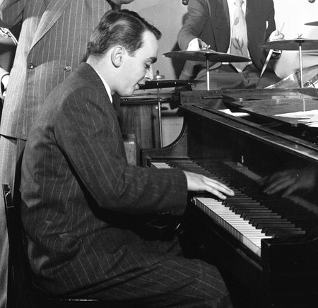 Charlie Ventura, Curley Russell, Bill Harris, Ralph Burns, and Dave Tough, Three Deuces, New York, N.Y., ca. April 1947